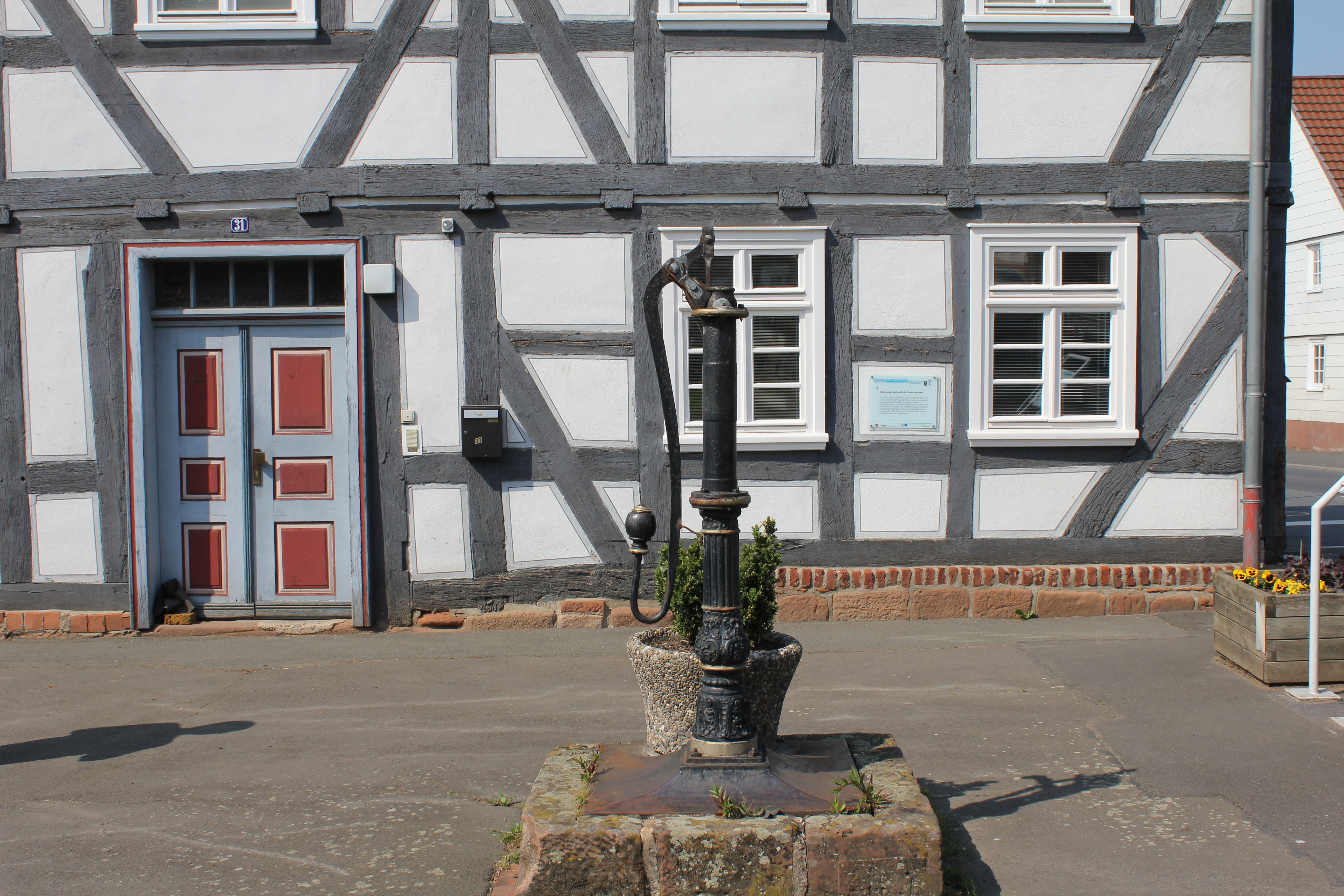 Huguenot and Waldensian archive in the former Volksschule in Todenhausen (Wetter), Entrance